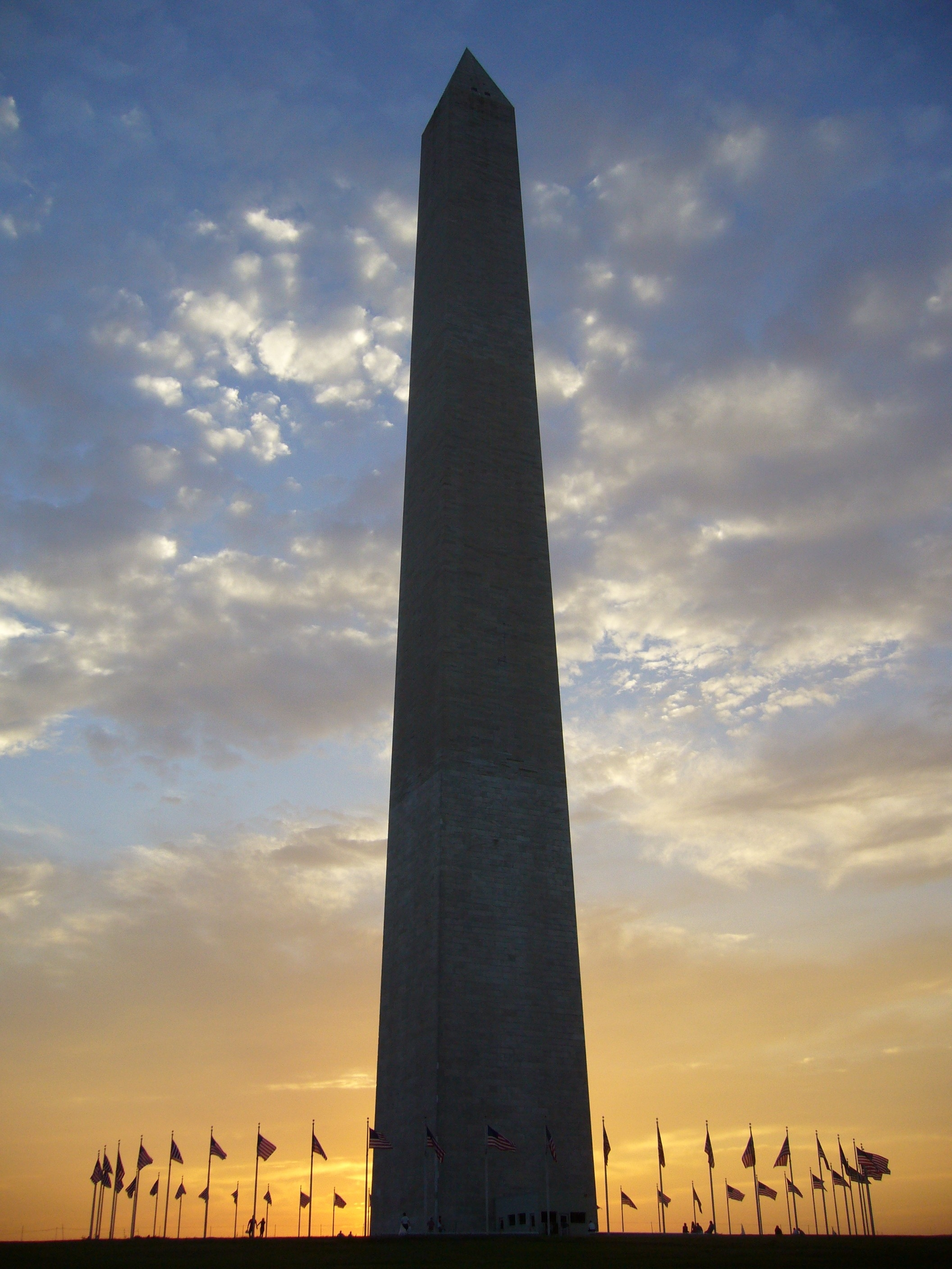 Washington, D.C. Memorial in evening.